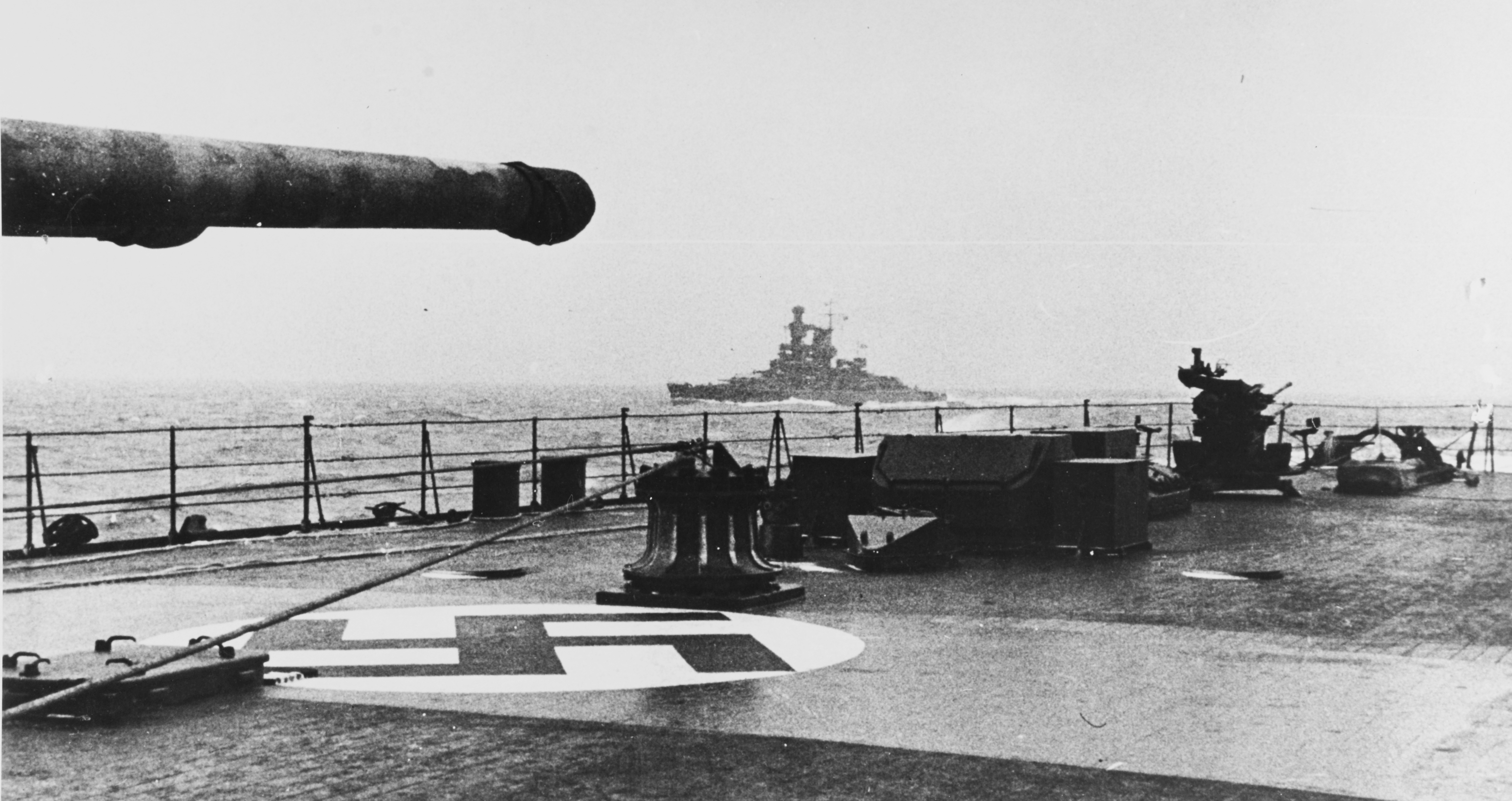 Admiral Scheer (German Heavy Cruiser, 1934-1945) Underway at sea, en route to Norway in February 1942. Photographed from the heavy cruiser Prinz Eugen. Note the air recognition marking on the latter's deck and the portable 20mm anti-aircraft gun mounting further aft.